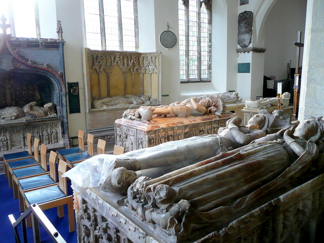 St. Mary's Priory church, Abergavenny - marble figures The church is reknowned for its collection of marble effigies.